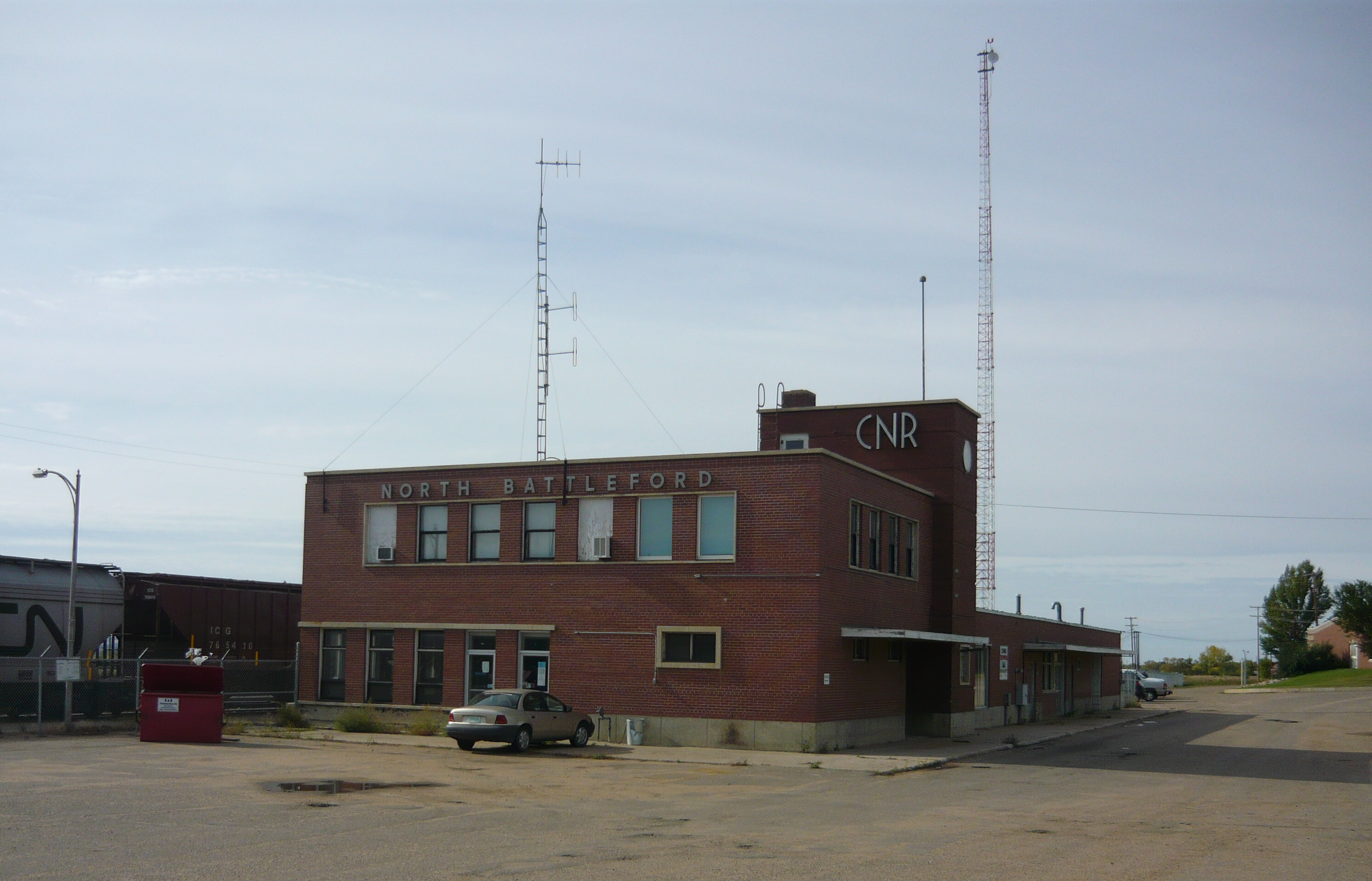 Former station of the Canadian National Railway in North Battleford, Saskatchewan, Canada. Located near the intersection of 101st Street and Railway Avenue East.